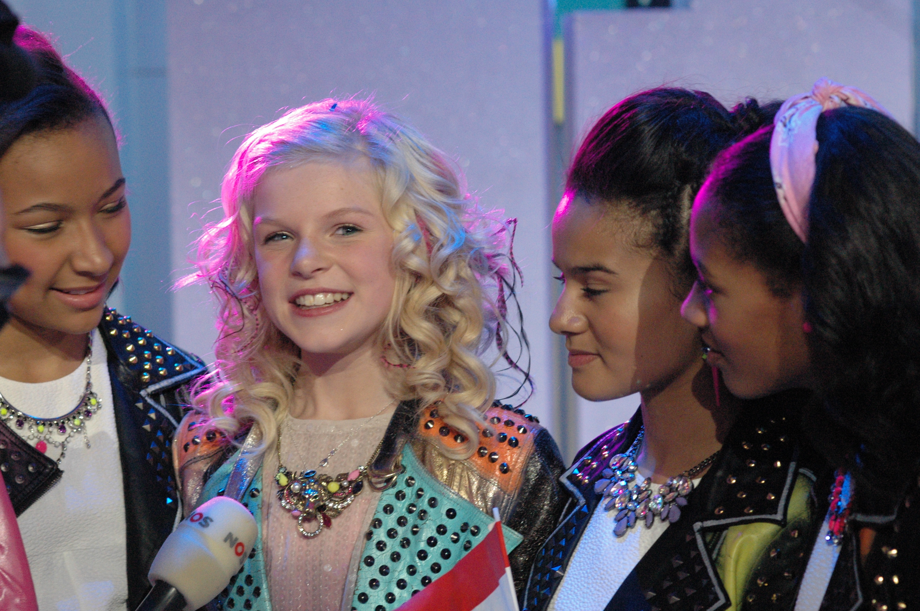 Femke (Femke Meines). Junior Eurovision 2012